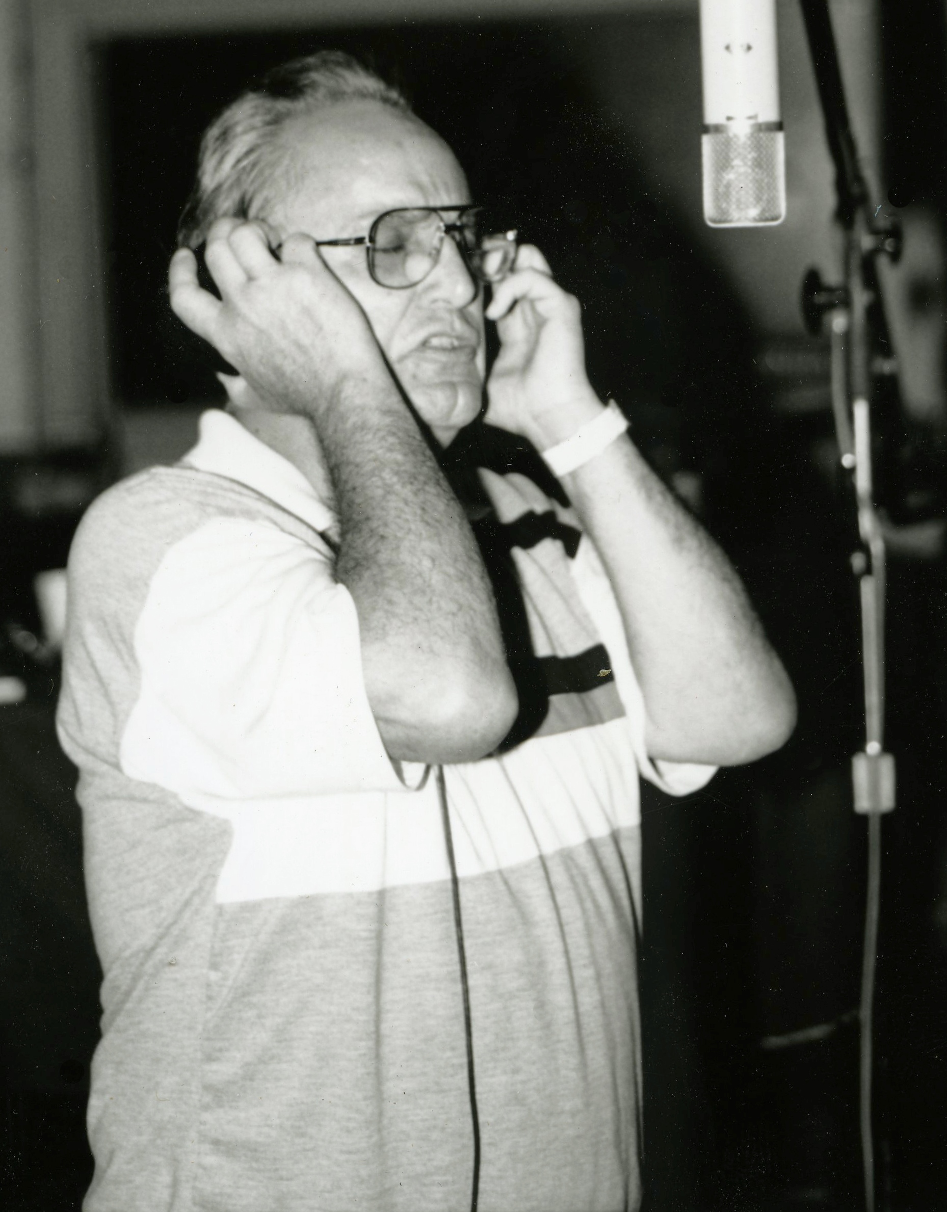 Rod Bernard recording his album "A Louisiana Tradition" at La Louisianne Studio, 711 Stevenson St, Lafayette, Louisiana, circa 1999.